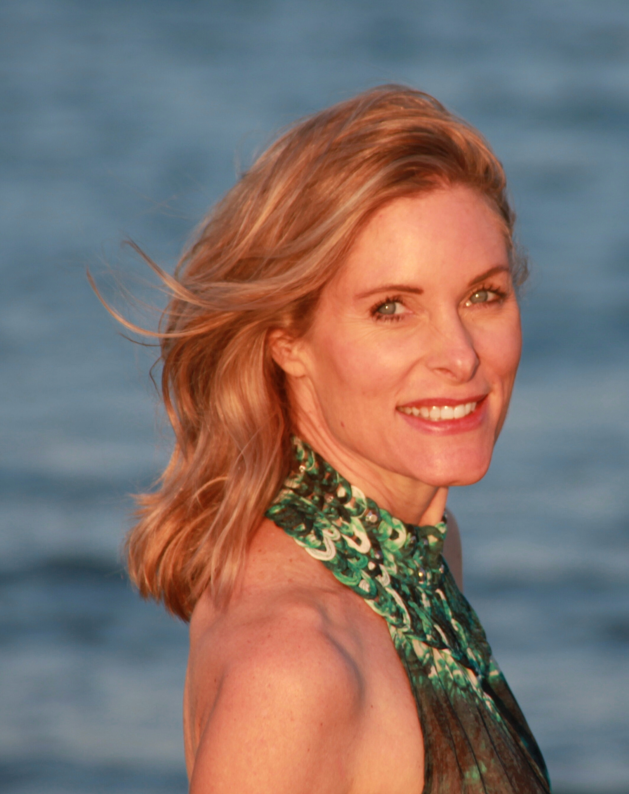 Marisa J. Lankester in Zurich 2014 _Image Size 2129X2688px